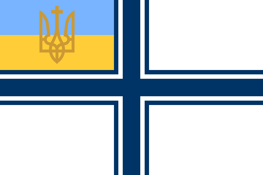 Naval Ensign of Ukrainian State (from 18 July 1918) and Ukrainian People's Republic (from December 1918). Reference: флаги армии and Гетманат и Директория.